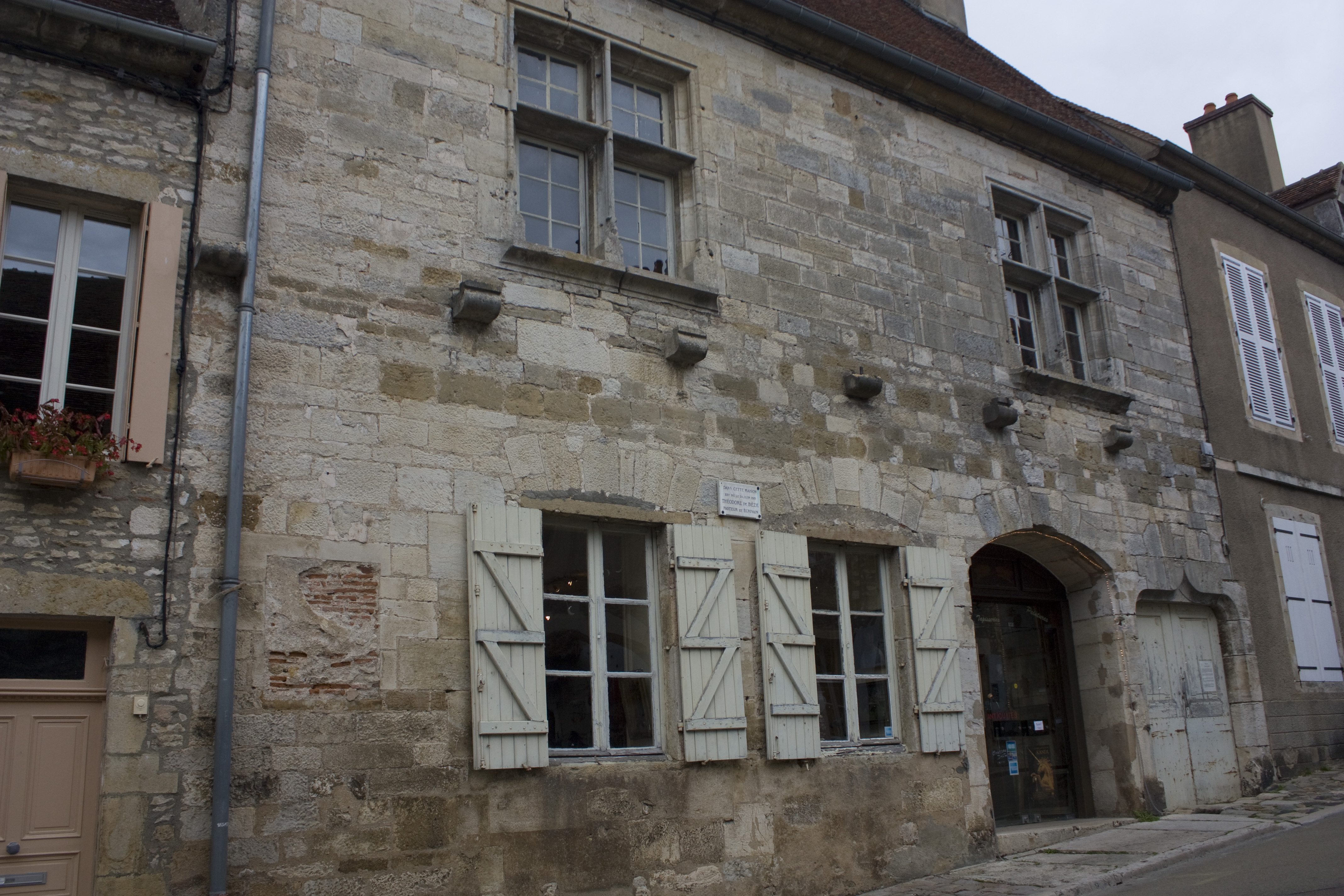 House of 15 ° century, birthplace of Theodore Beza, Calvinist theologian. (Vézelay, Burgundy, France).